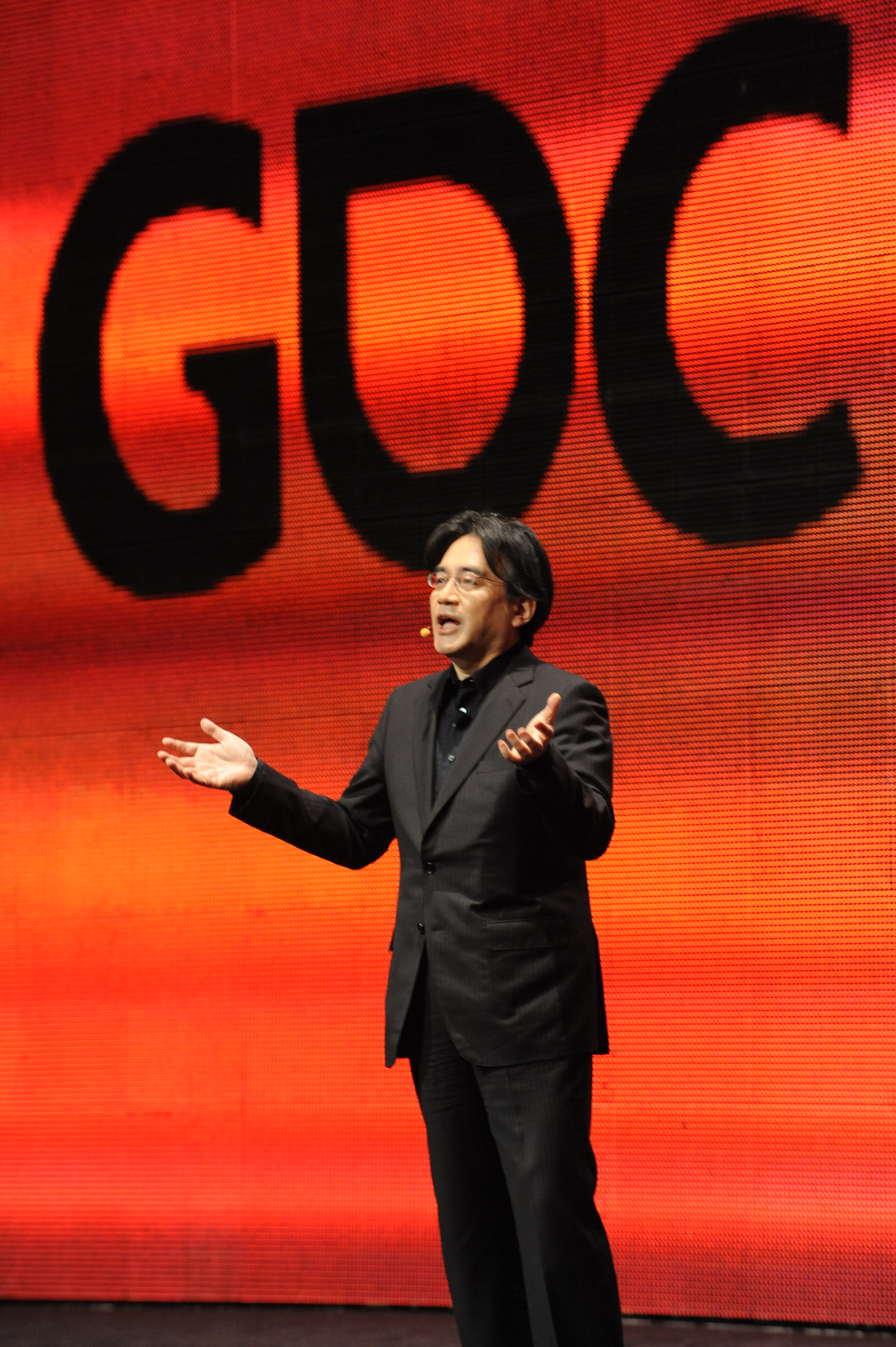 Satoru Iwata at GDC 2011